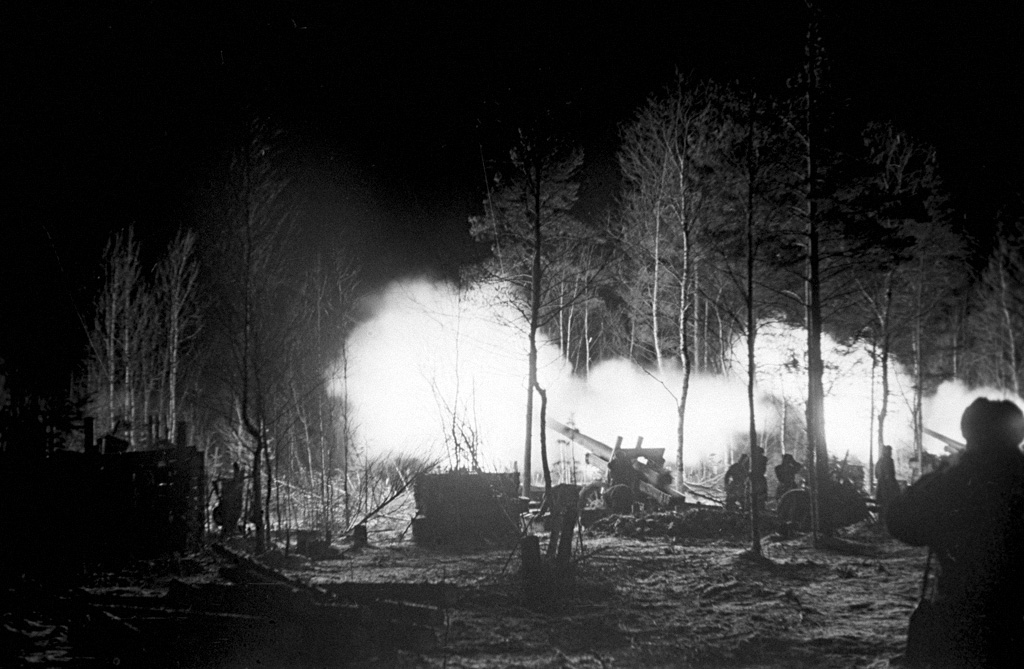 “Leningrad offensive operation”. Leningrad offensive operation. The Great Patriotic War of 1941-1945.